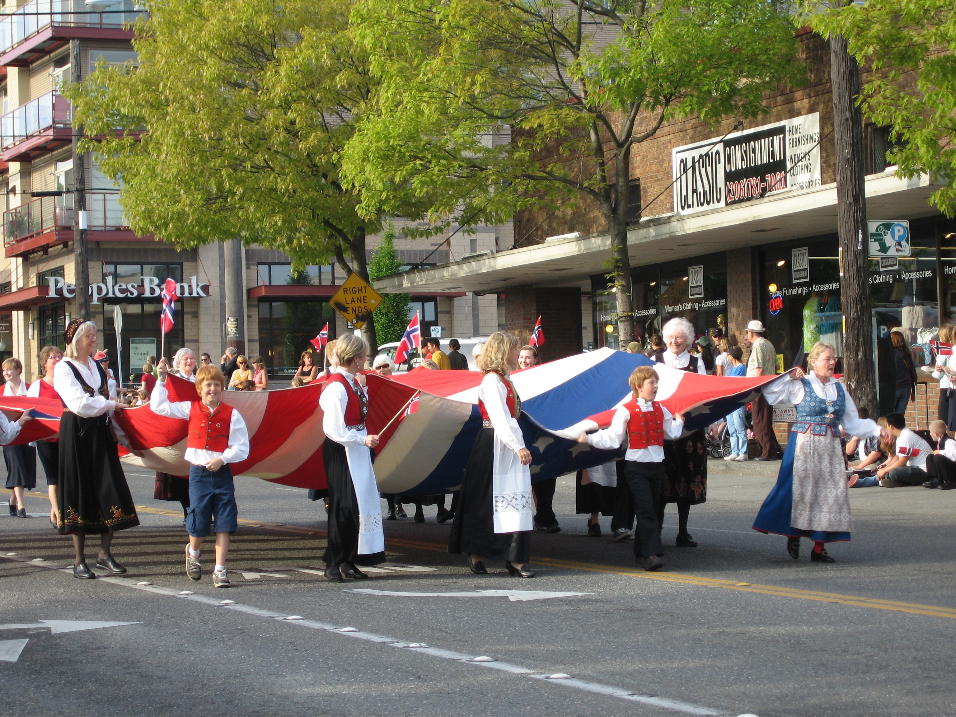 Norwegian Constitution Day, 17 May, celebrated in Ballard, Seattle, 2010. Huge double sided flag USA/Norway.